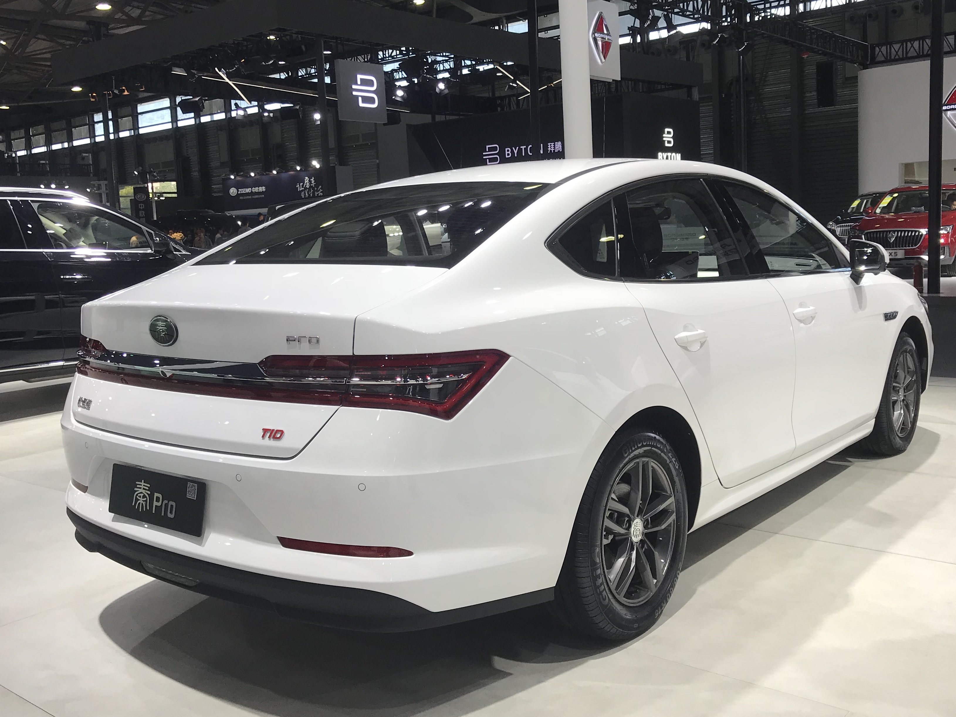 BYD Qin II rear